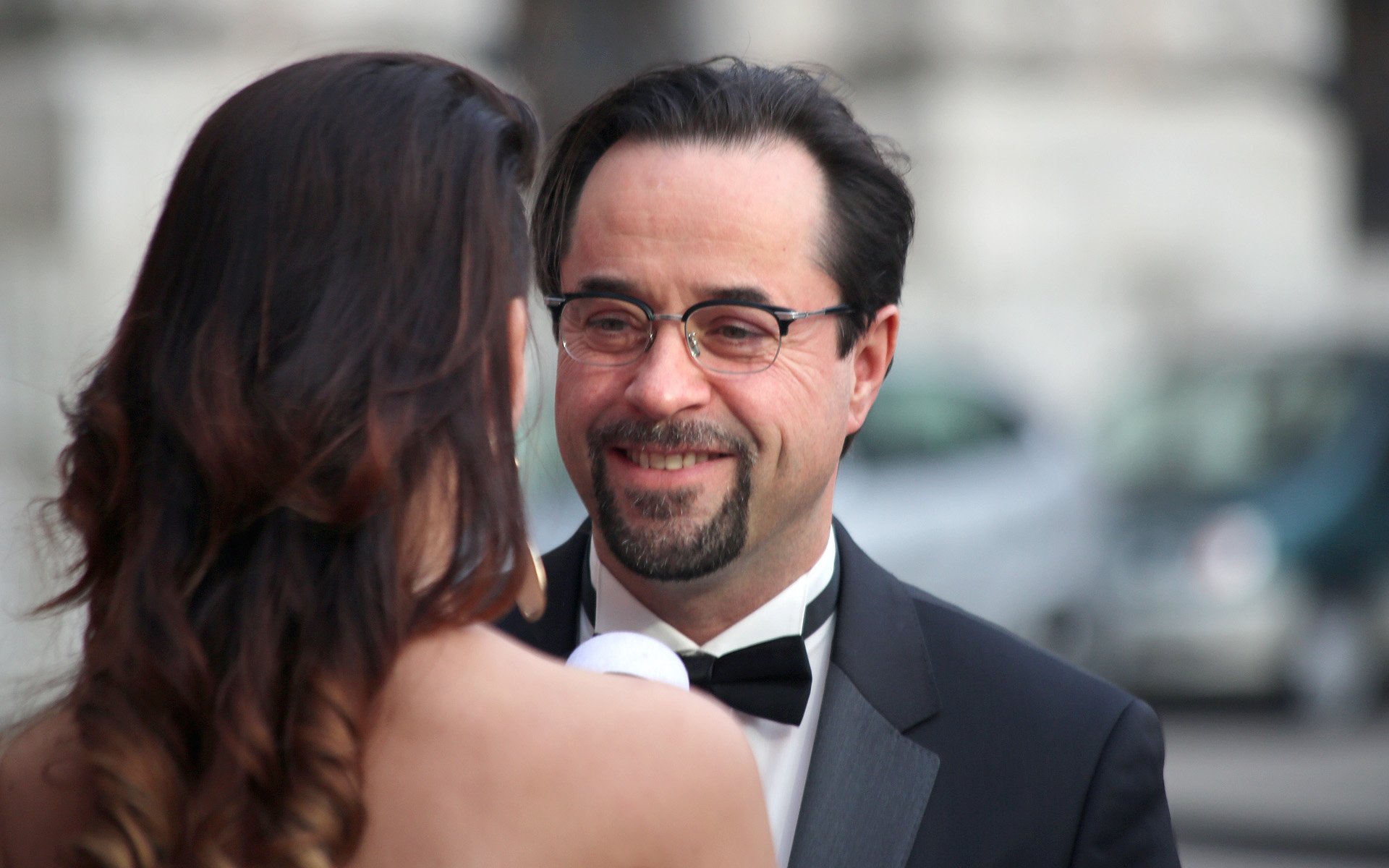 Jan Josef Liefers, interviewed by Sasa Schwarzjirg for ATV, at the Romy film awards (Hofburg Imperial Palace in Vienna)